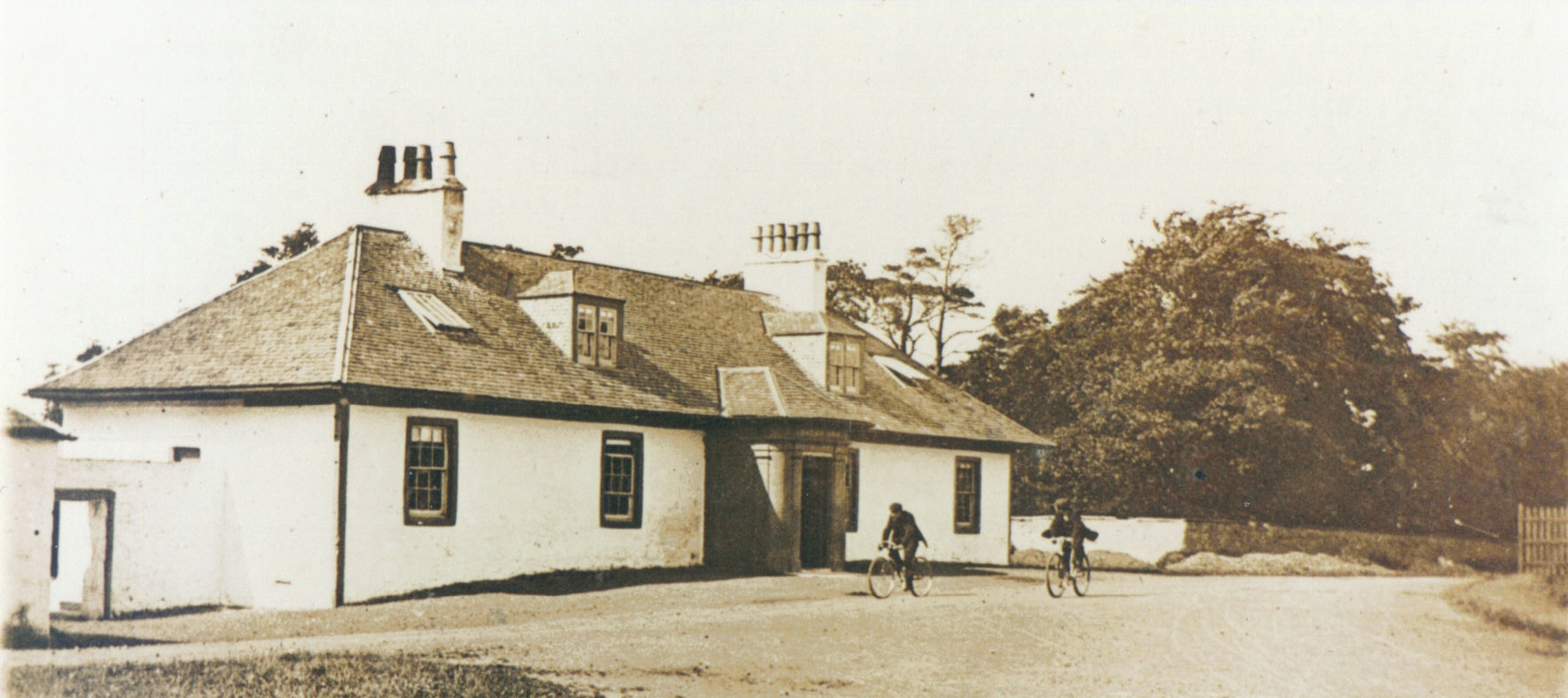 The Lugton Inn at Lugton, East Ayrshire, Scotland. Now burned down.